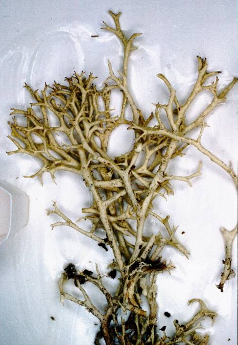 Cladonia uncialis (L.) F.H. Wigg., 1780 Photograph of a herbarium specimen. This specimen of Cladonia uncialis was growing on soil along the Blue Trail at the Humboldt Field Research Institute on Eagle Hill, in Steuben, Maine, USA (Lat. 44o27.585' N, Long. 67o56.016' W). Collected by E.C. Uebel, and identified by Dr. David H.S. Richardson (No. U-208, 11 Jun 2001).